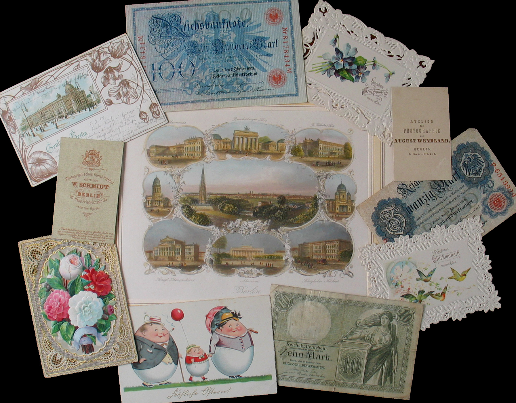 Paper usage between 1850 and 1930: colored steel engraving on a souvenier sheet, bank bills, greetings cards (luxury paper), picture postcard, small cards made from cardbox for photos.